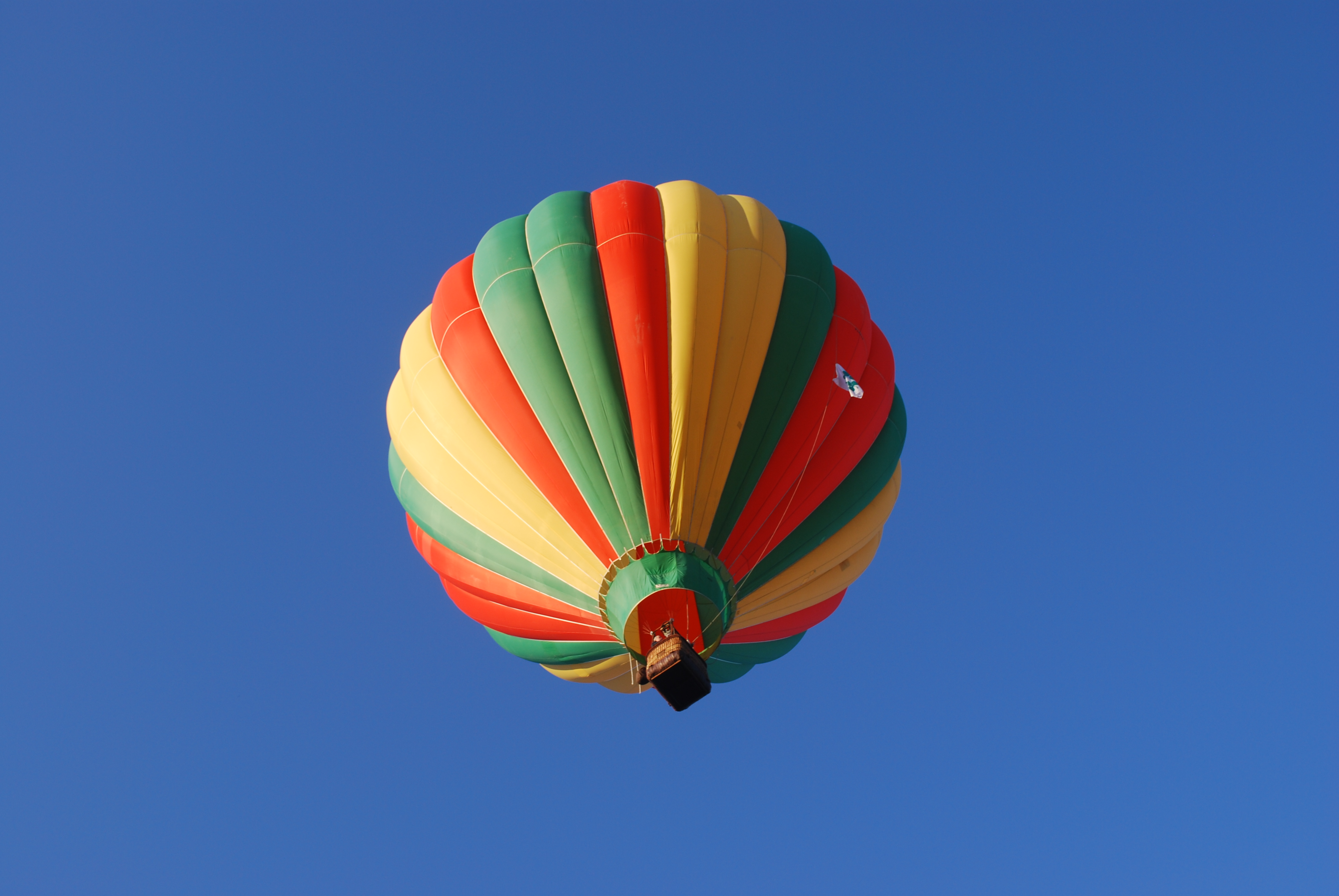 A hot air balloon in flight at the Mid-Hudson Valley balloon festival along the Hudson River in Poughkeepsie, New York